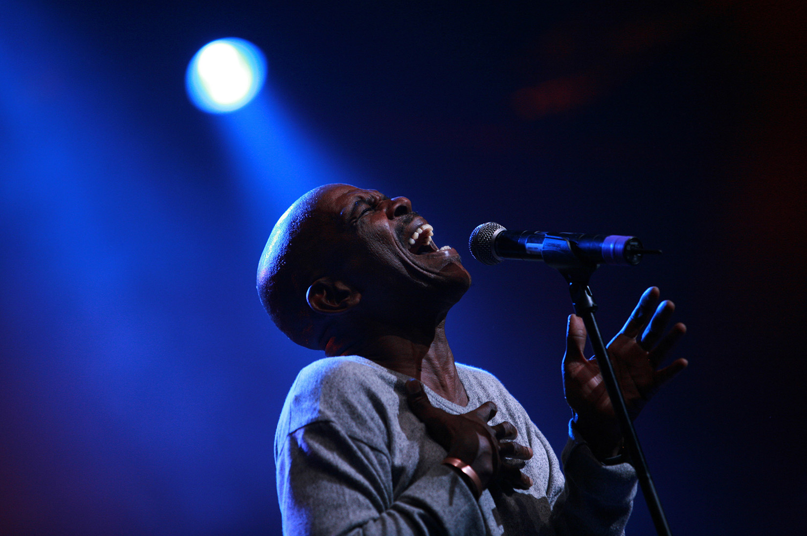 This picture was taken when Ray phiri was performing with Stimela in Midrand Johannesburg South Africa when they were celebrating 25 years in the music industry